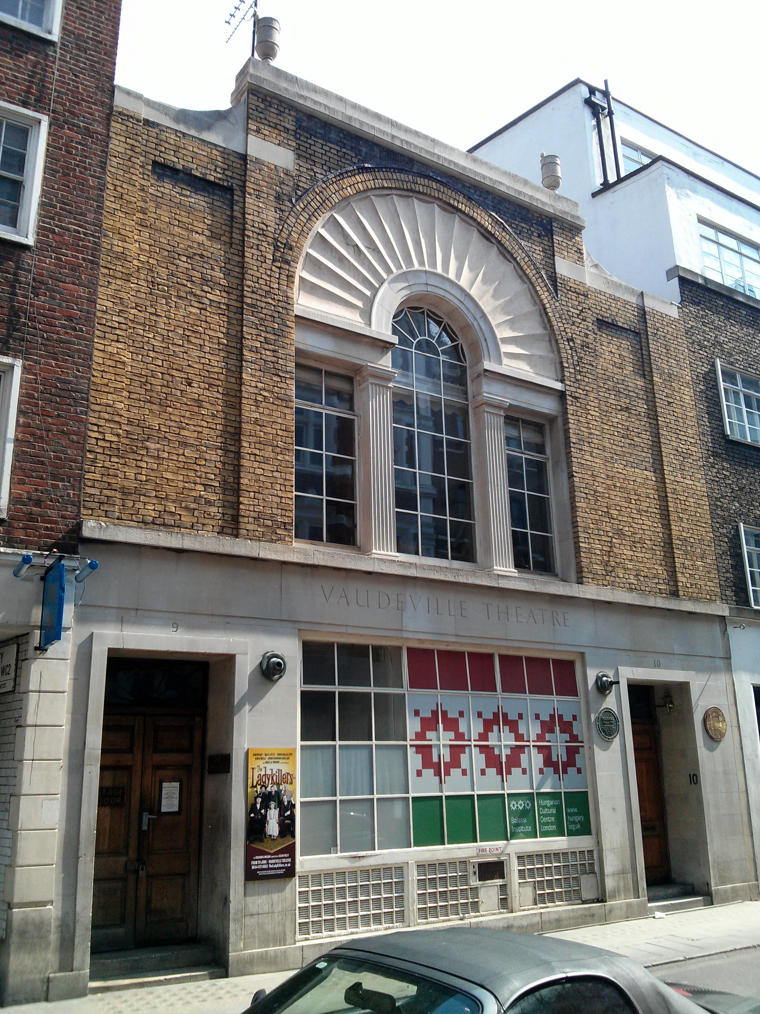 Vaudeville Theatre, Maiden Lane, London